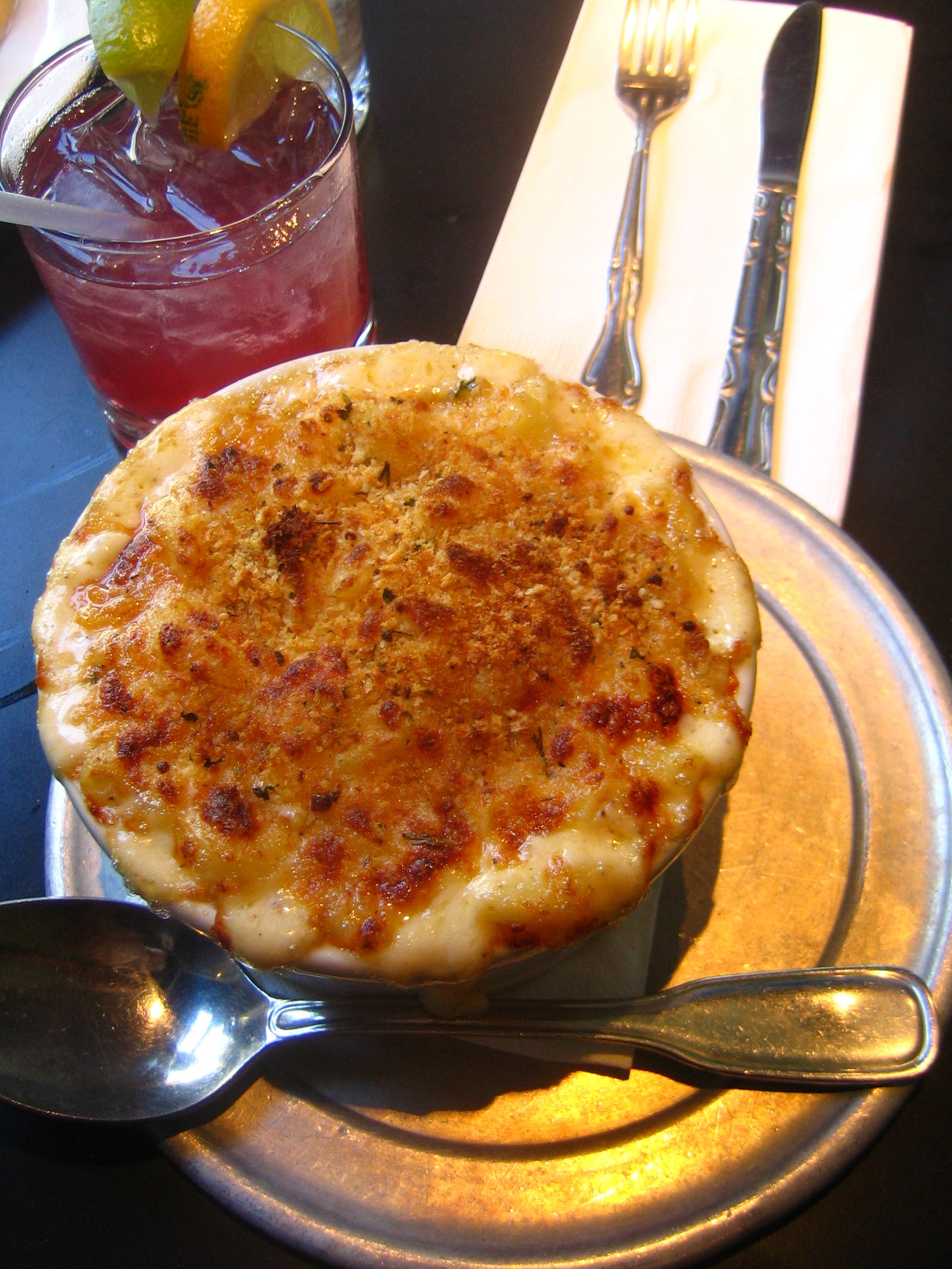 Macaroni and cheese with panko topping and a Soju-based cocktail in a tumbler at Blue at 2337 Market Street in San Francisco, California. “Gourmet Mac & Cheese: Fresh mozzarella, sharp cheddar, Parmesan, elbow pasta, topped with Japanese bread crumbs.” Description from their online menu as viewed on 2007-05-27.